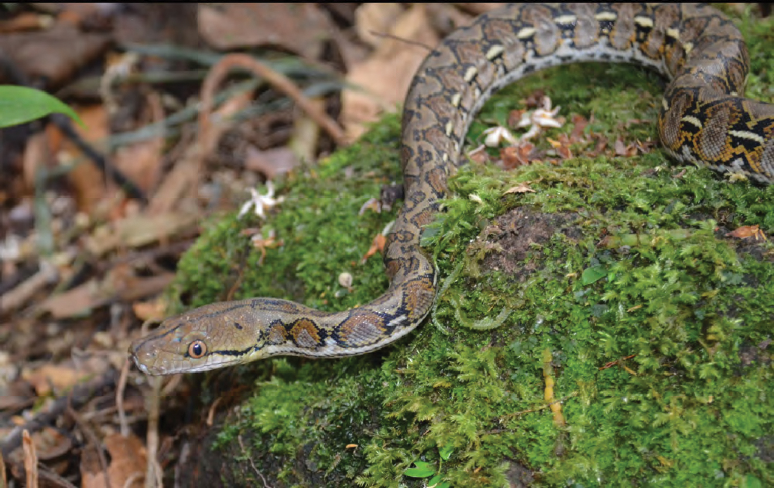 Subadult male Broghammerus reticulatus (KU 330021). Photo: JS.